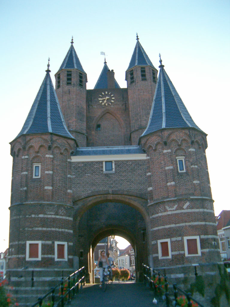 Amsterdamse Poort (Amsterdam Gate), Haarlem, The Netherlands